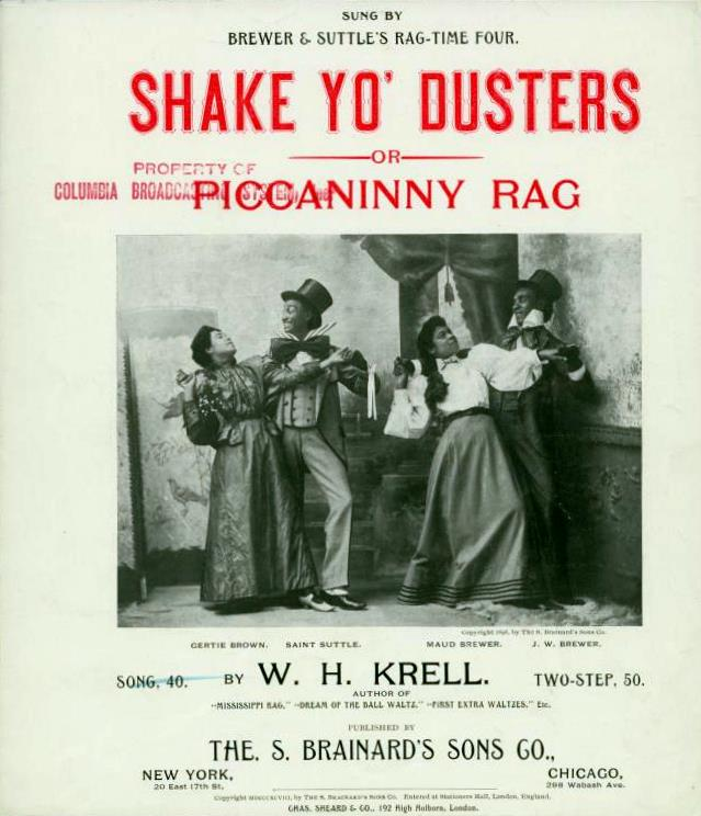 Shake yo' dusters, or, Piccaninny rag / by W. H. Krell Alternate Title: Brewer & Suttle's Rag-time Four